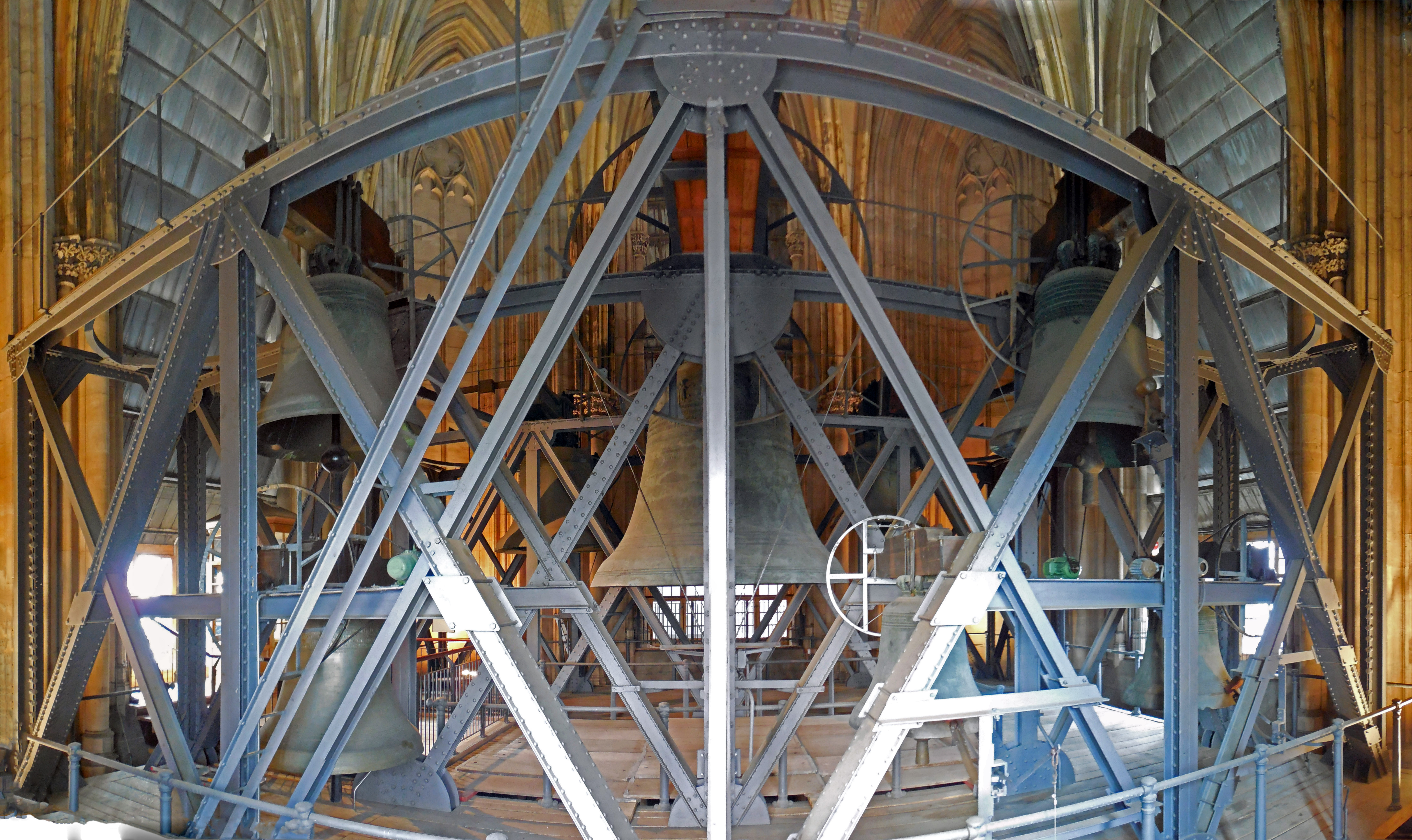 Cologne Cathedral Bell Frame, 2013, Panorama